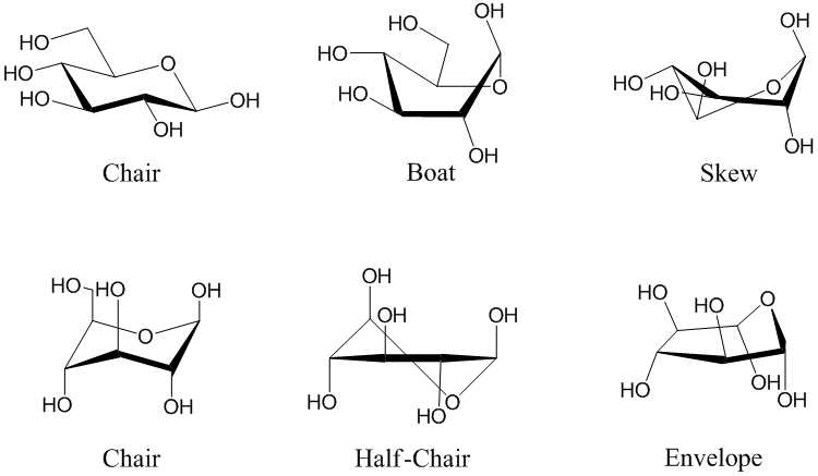 Chair, Boat, Skew, Half-Chair and Envelope forms of b-D-glucopyranose